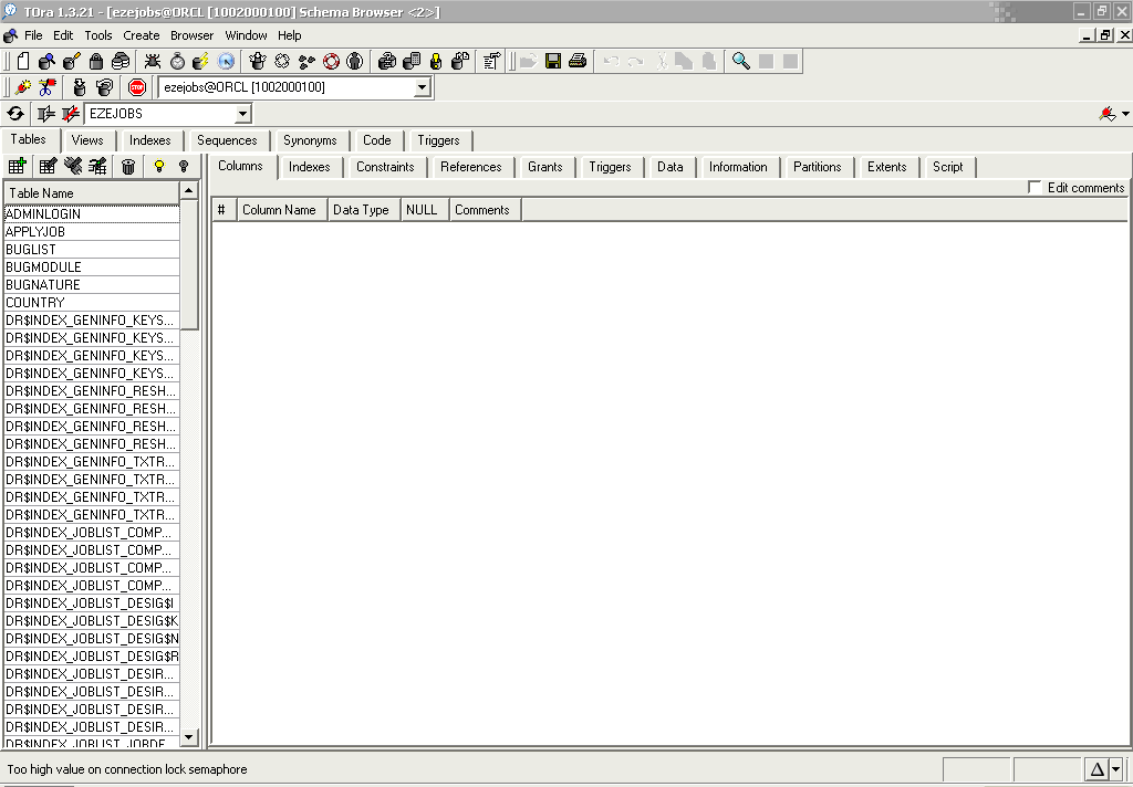 TOra 1.3.21 on KDE